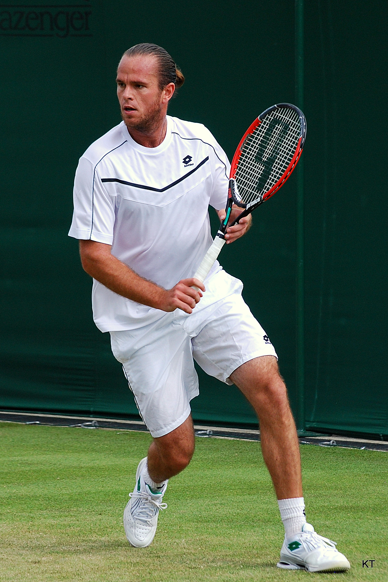 Xavier Malisse during his first round match with Mischa Zverev. Malisse won 6-2, 6-3, 6-2. Day 2 of Wimbledon 2011.